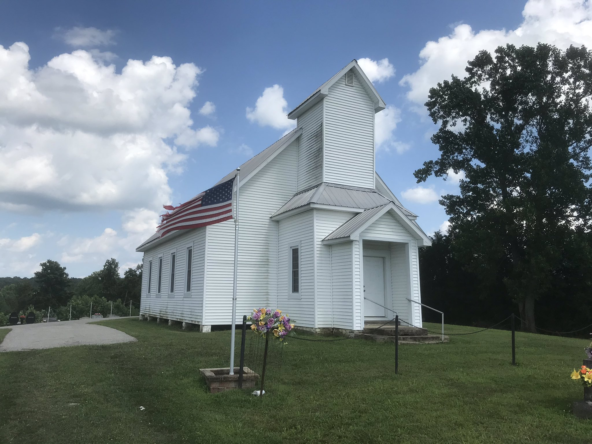 Dixon Chapel, built in 1894, located in Fort Ritner, Indiana, or more specifically, the former unincorporated community of Dixonville, Indiana.